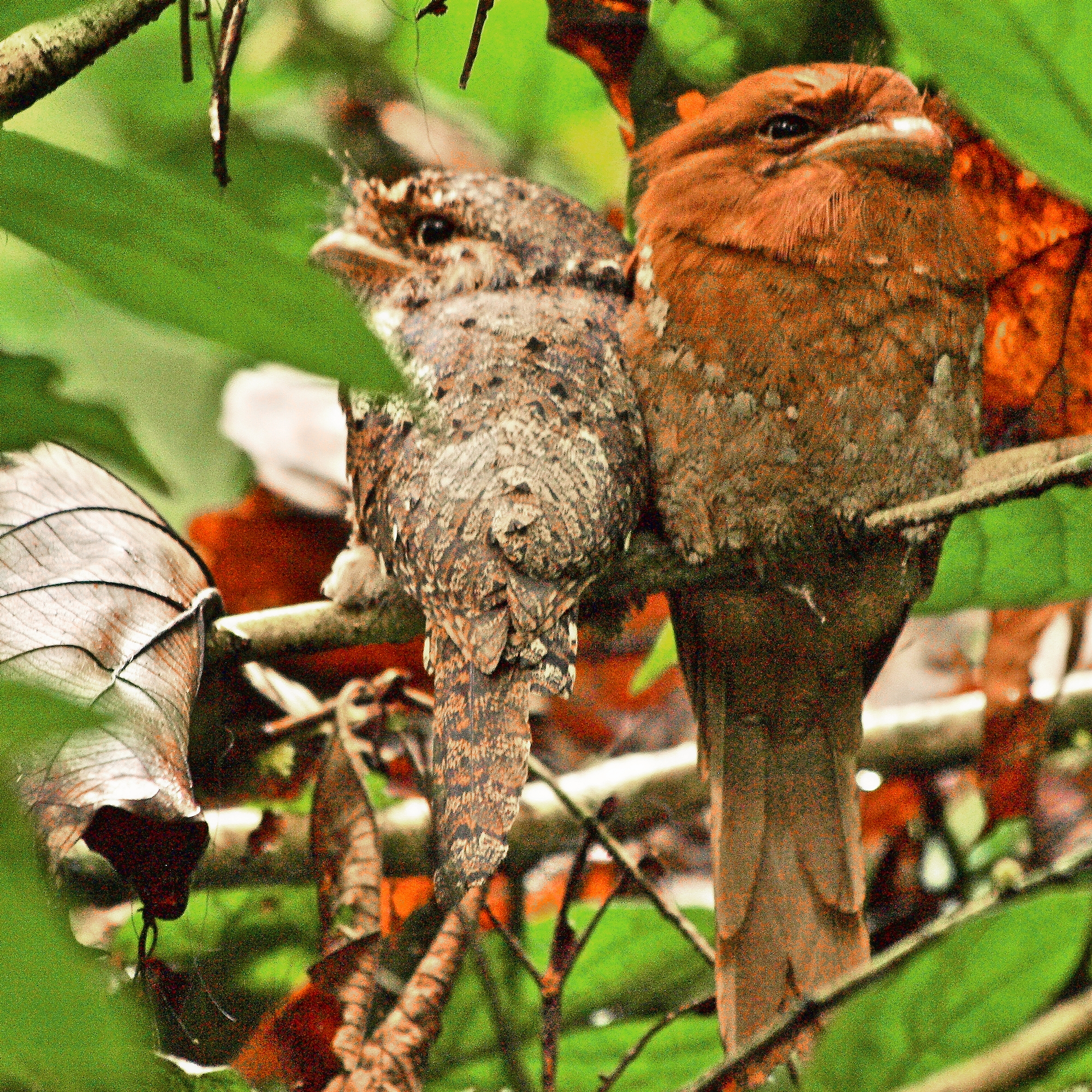 A pair of Sri Lanka Frogmouths at their day roost. Location: Salim Ali Bird Sanctuary, Thattekad, Kerala, India